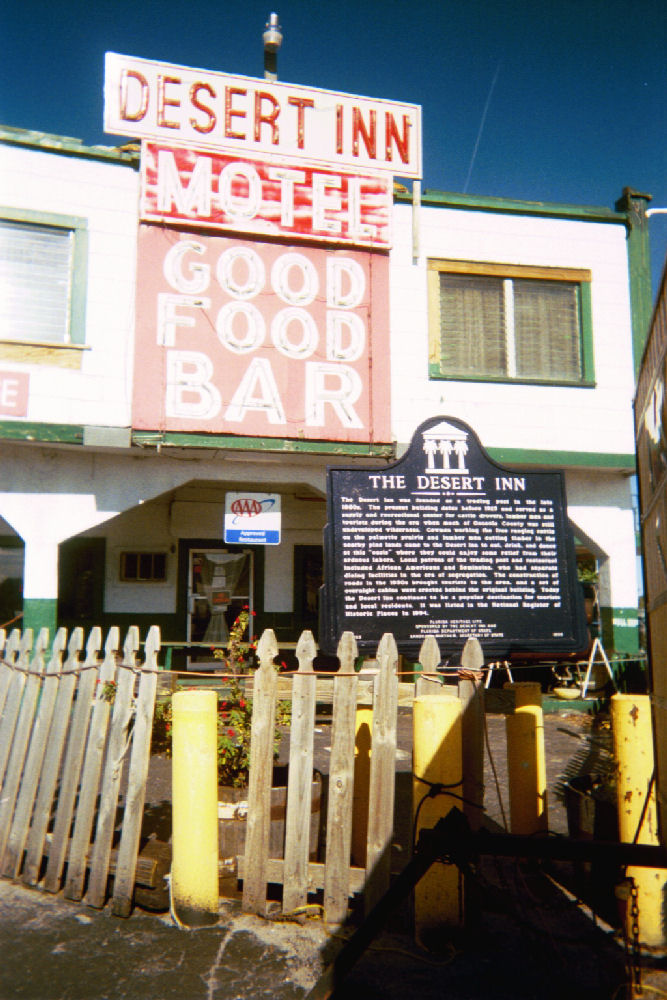 Desert Inn and Restaurant in Yeehaw Junction, Florida